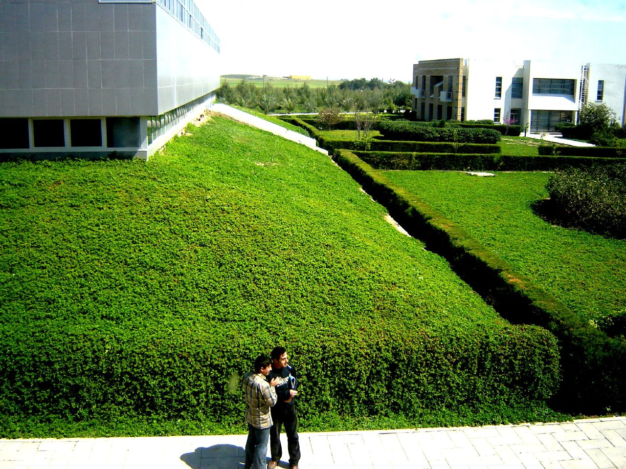 A view from the campus of the Cyprus International University (CIU) / Uluslararası Kıbrıs Üniversitesi (UKÜ)